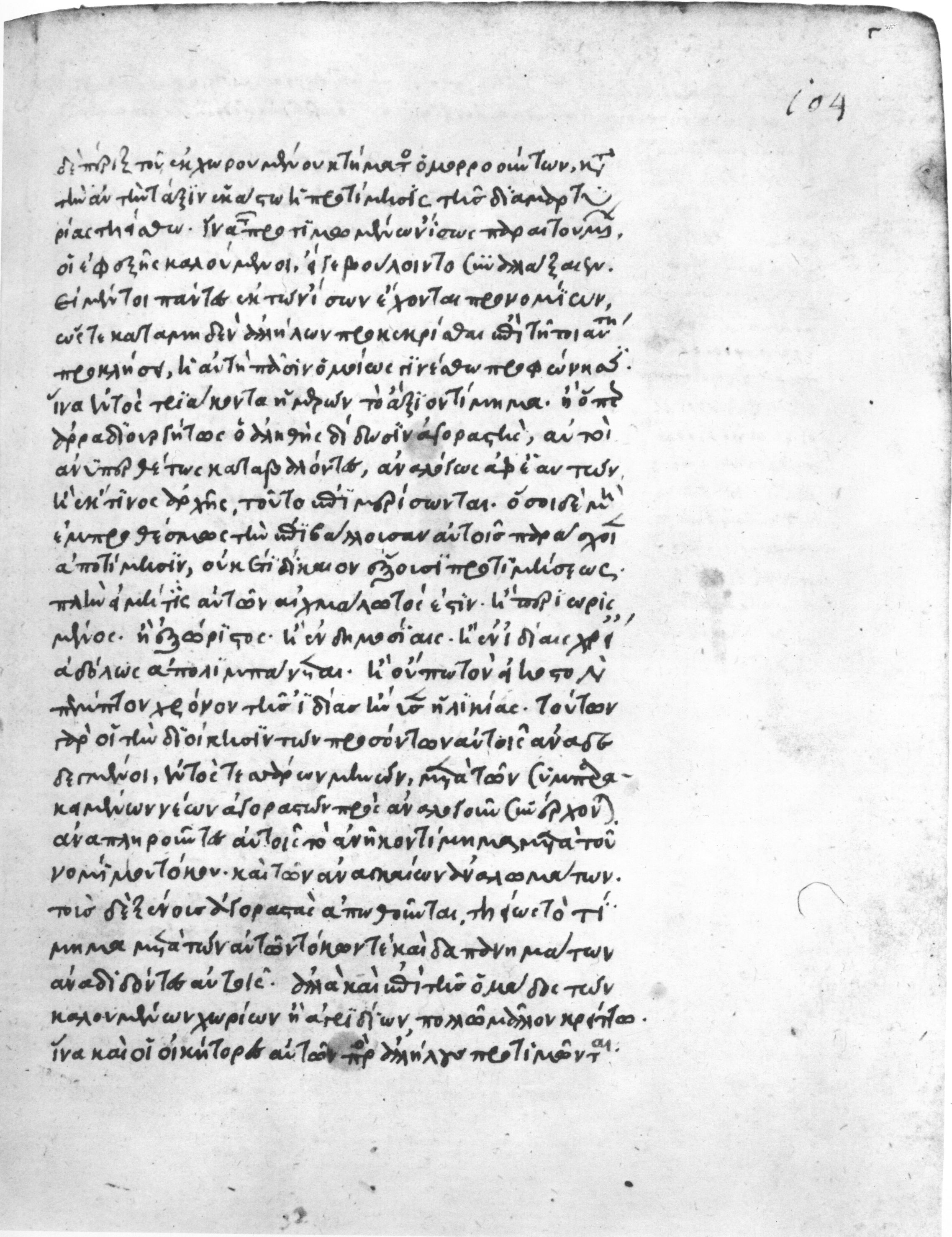 Constantine Harmenopoulos, Hexabiblos, in ms. Venice, Biblioteca Marciana, Gr. 183, fol. 104r.